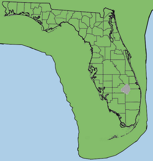 Florida during the early Halocene 10,000 years ago. This map was created from a State of Florida, Division of Historic Resources.